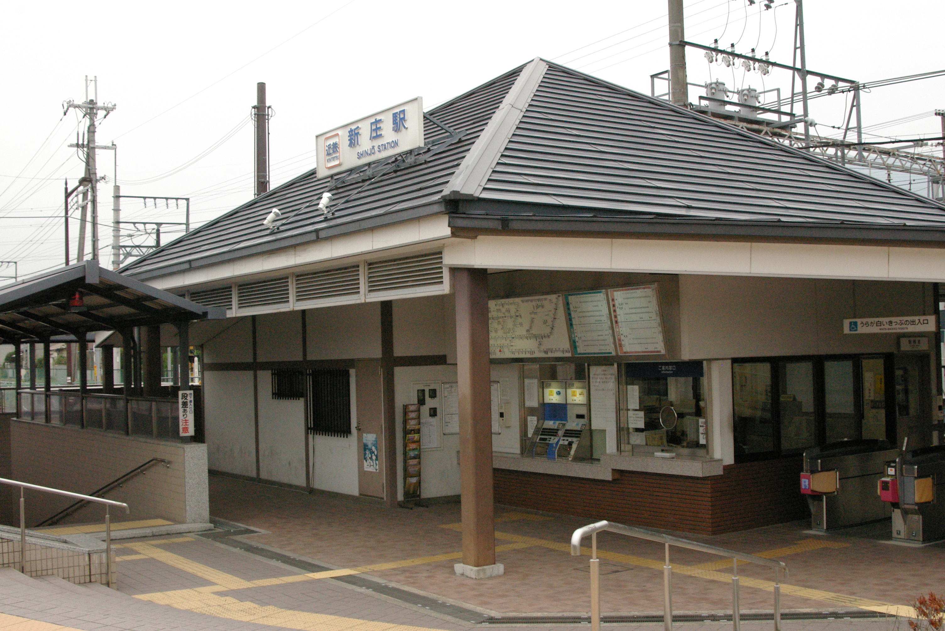 Kintetsu Shinjo Station building